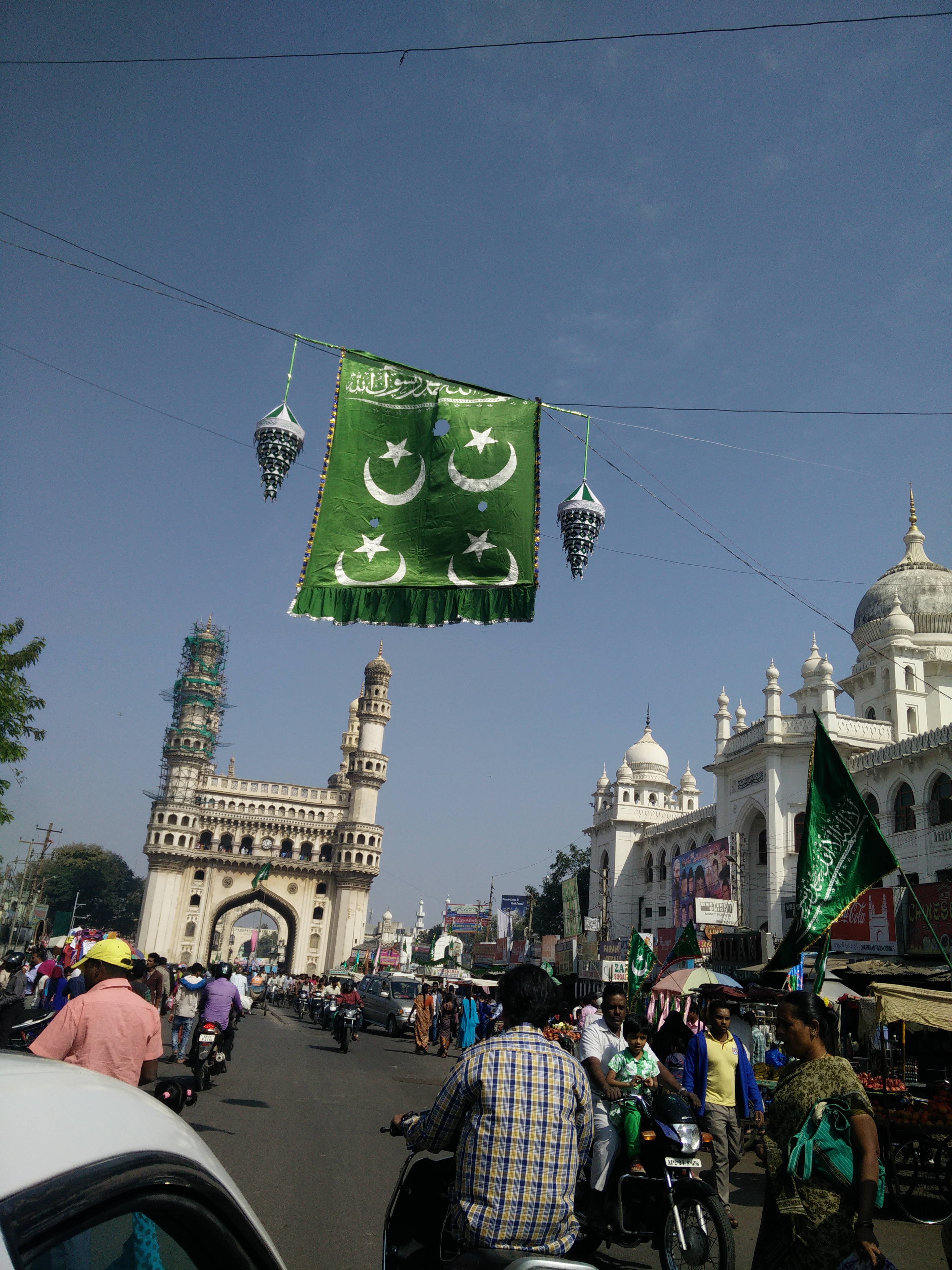 Charminar during Miladunnabi